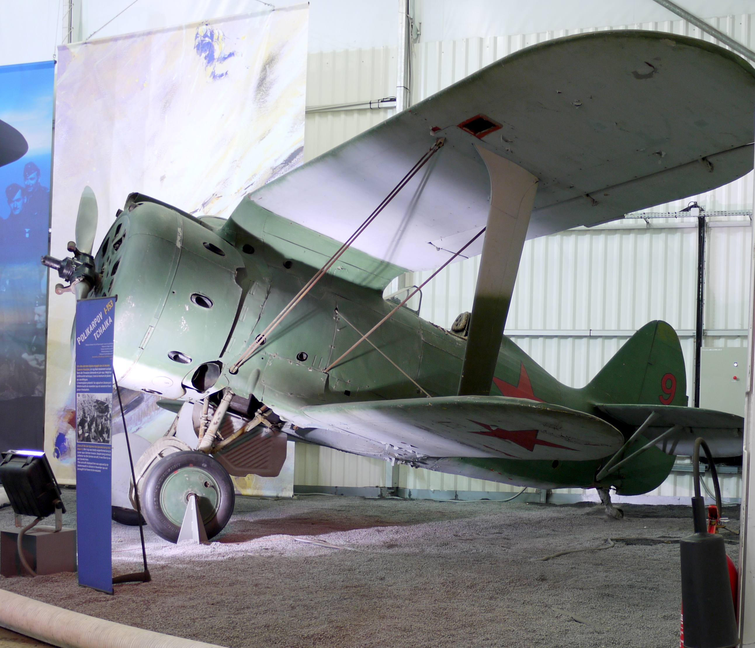 Soviet biplane fighter Poliakarpov I-153 (1938), Museum of Air and Space Paris, Le Bourget (France)